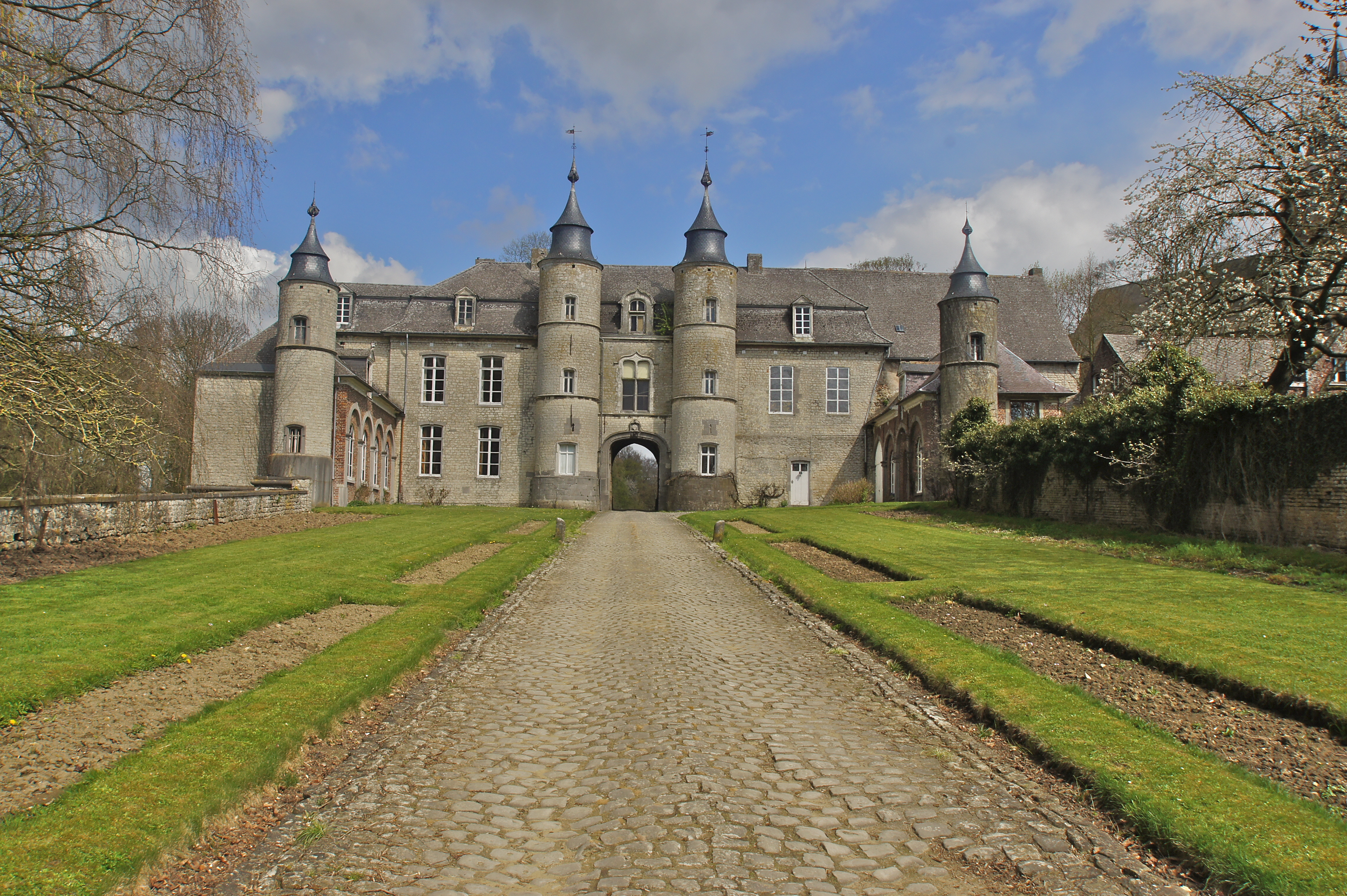 Houtain-le-Val (Genappe), Belgium: Castle